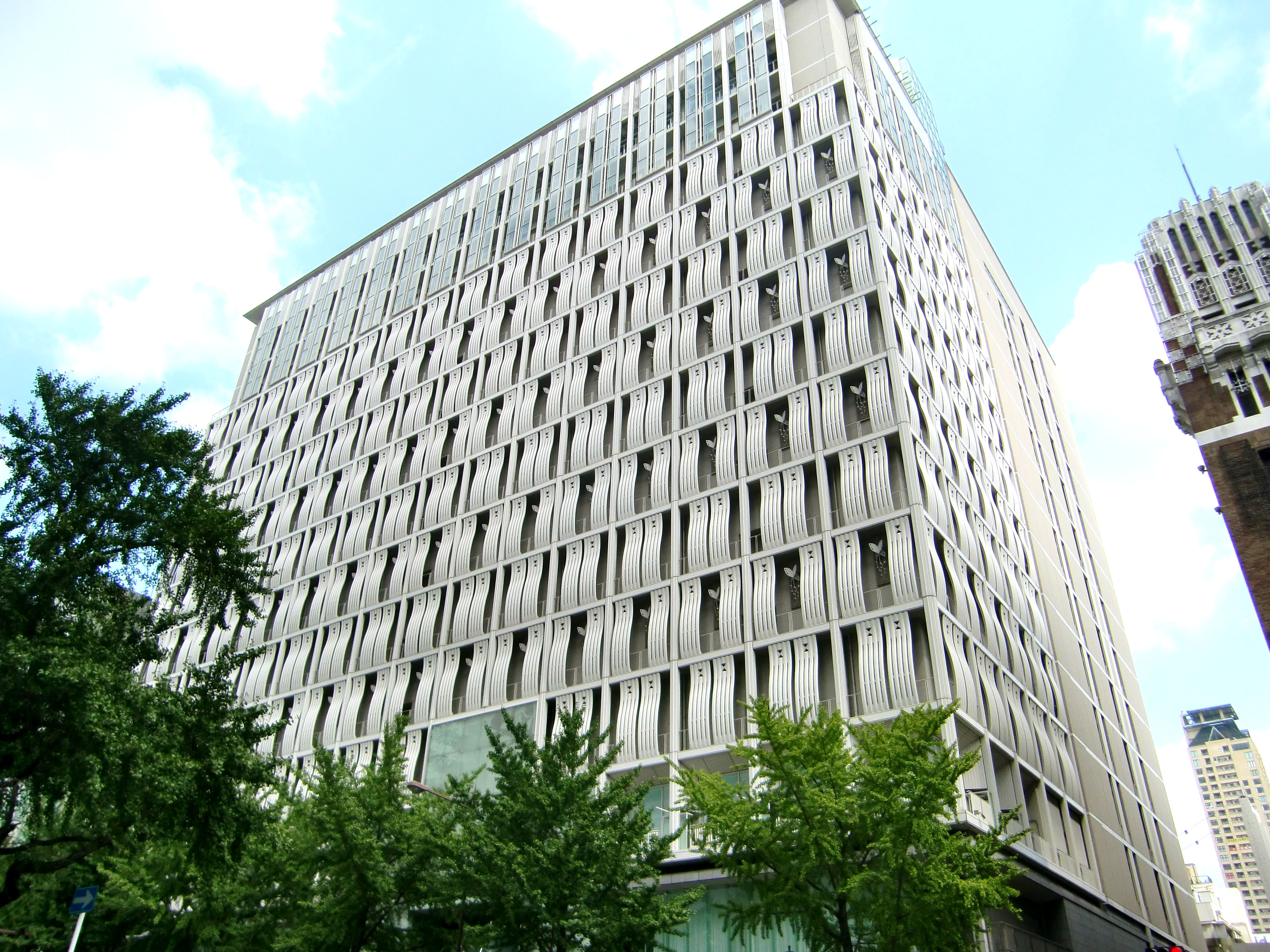 Daimaru Shinsaibashi Kitakan, 1-7-3 Shinsaibashisuji Chuo-Ku Osaka-City Osaka Japan.